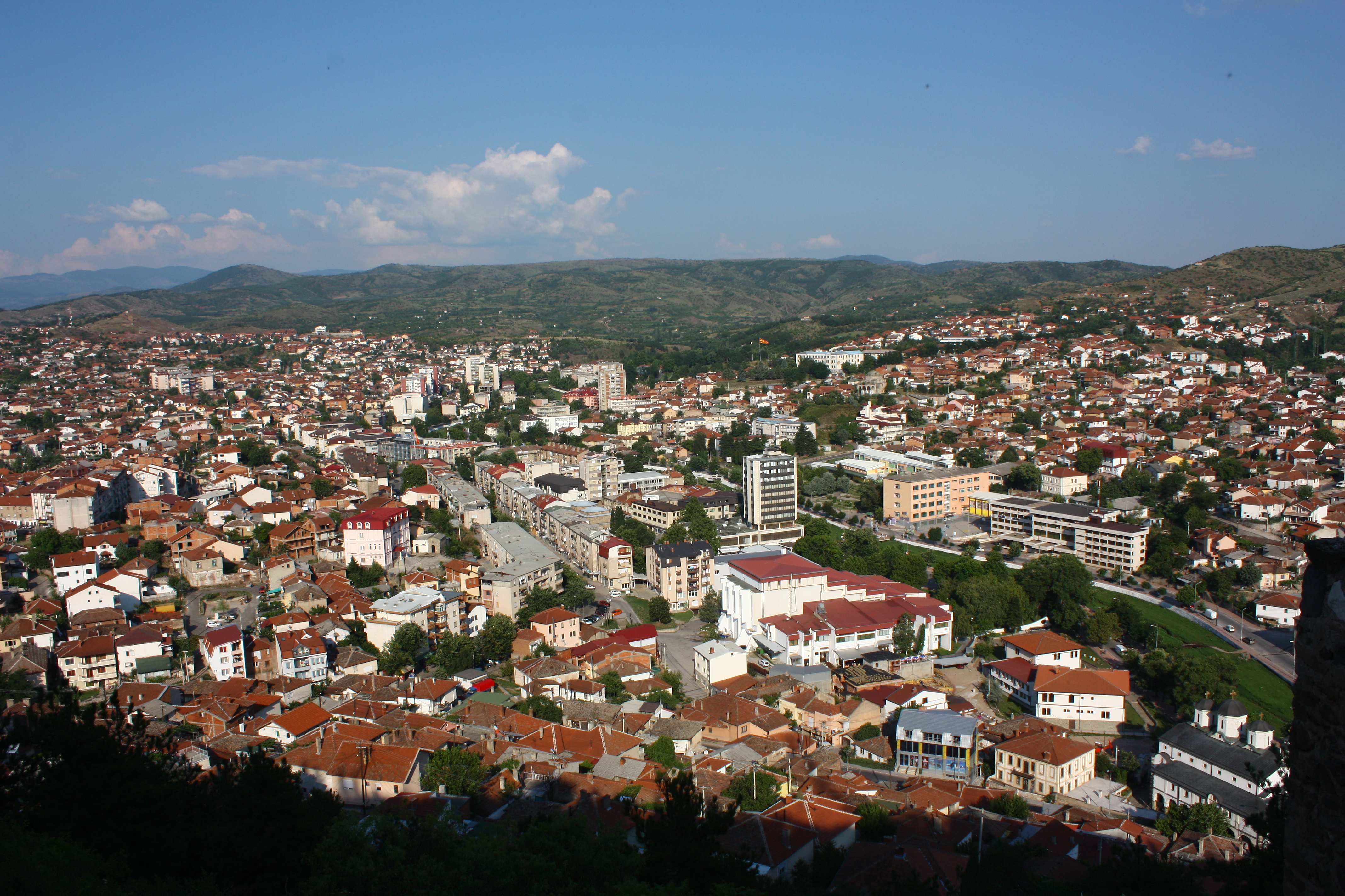 Štip, Macedonia